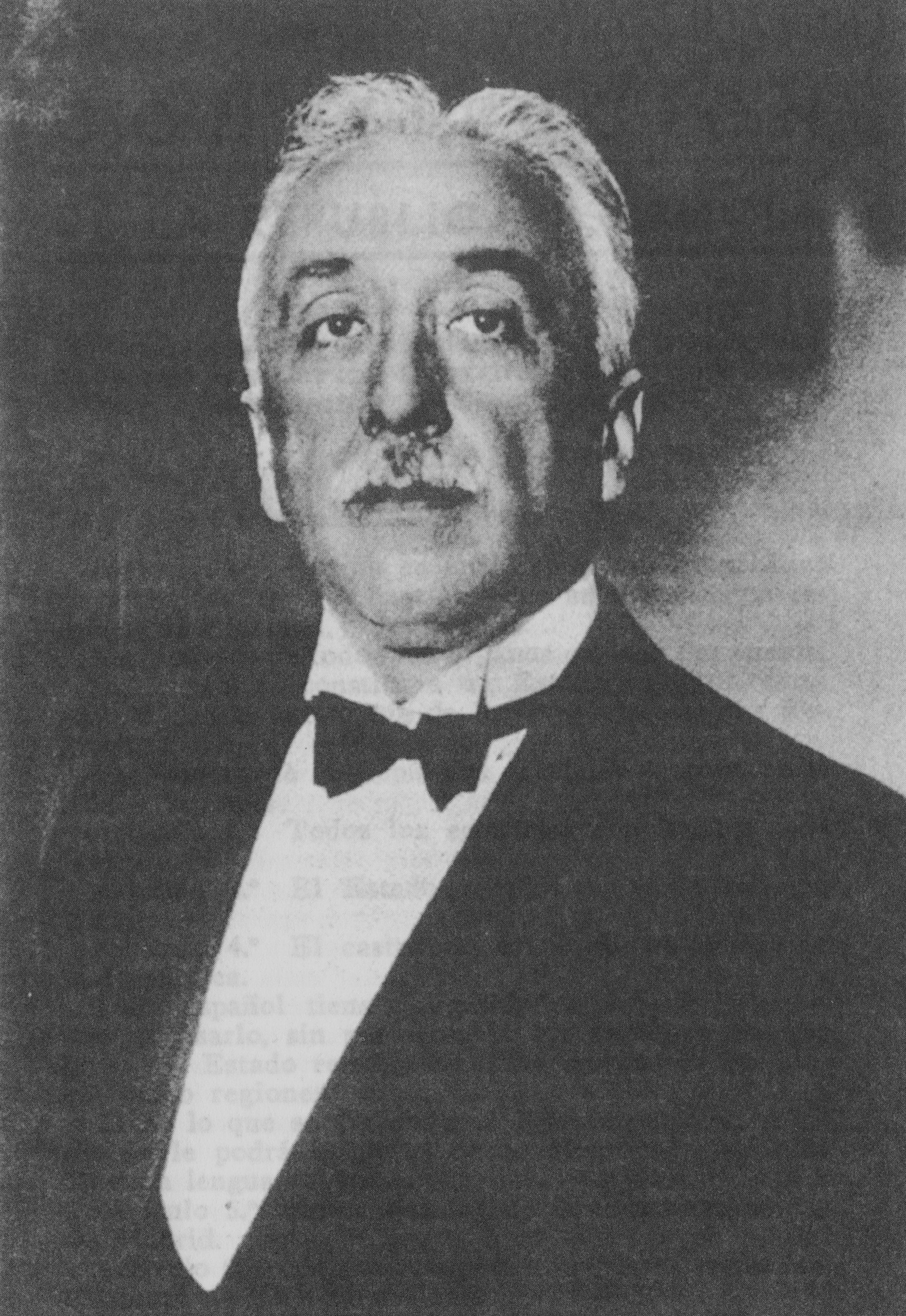 Official portrait of Niceto Alcalá-Zamora as President of the Spanish Republic and as MP of the Spanish Republican parliament.